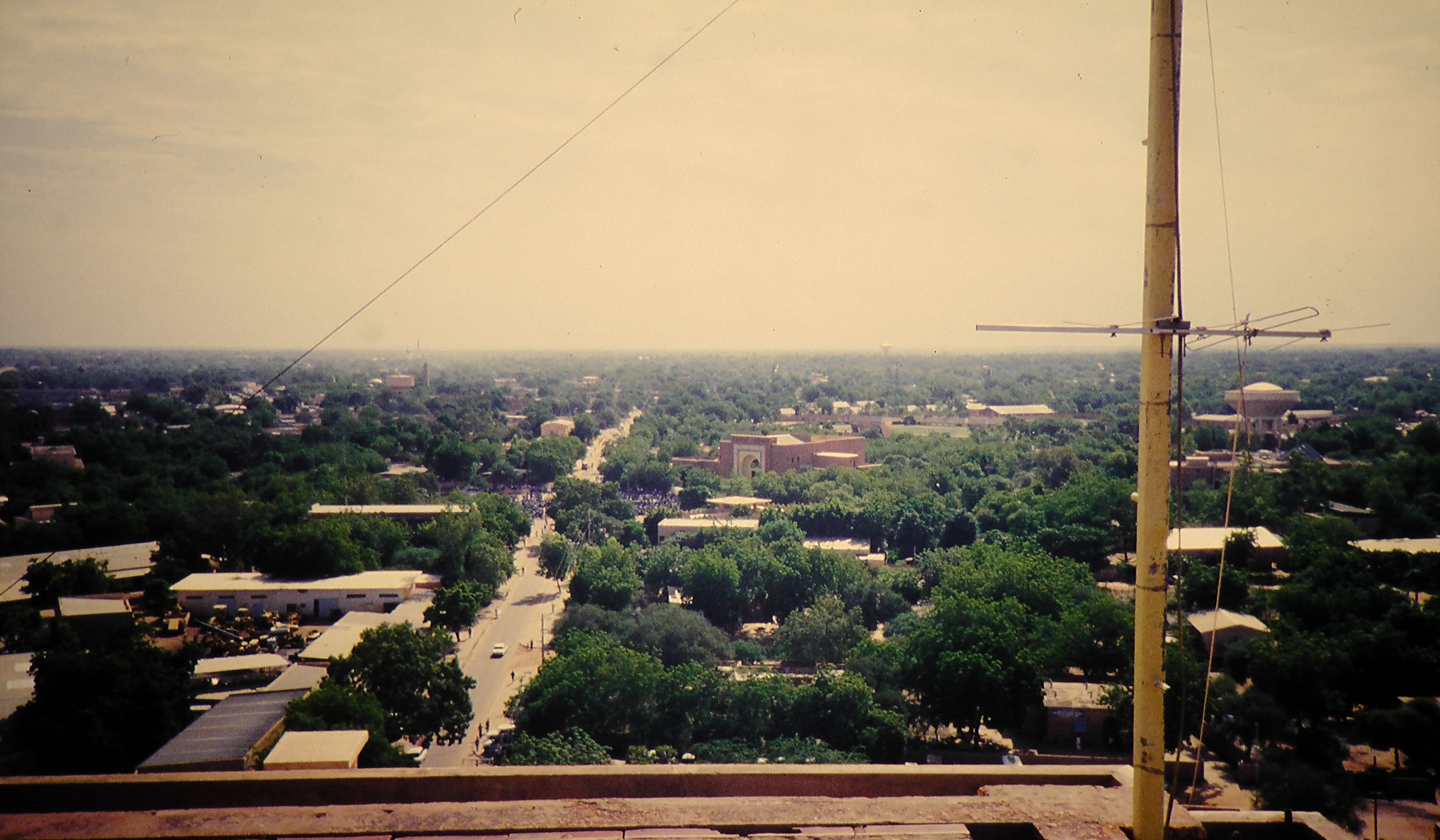 View over Niamey, Niger.